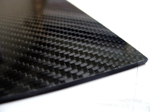 Carbon fiber laminated sheet. Raw carbon fiber fabric material is processed together with epoxy resin or other resin systems. The raw carbon fabric and resin system are procesed together using heat and pressure to produce a very high quality sheet laminate material. The completed carbon fiber sheet posesses very high strength properties that can be greater than metals. The finished sheet is however extremely light weight, weighing a fraction of its metal counterpart.